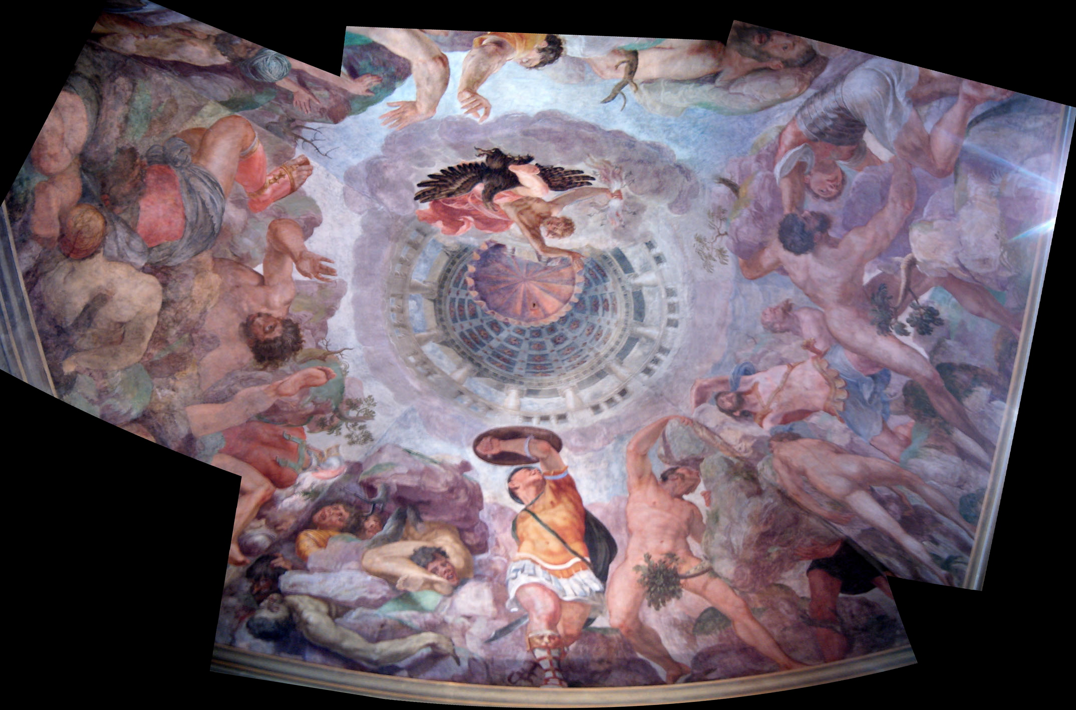 Palazzo Porto. Contrà Porti in Vicenza. By Andrea Palladio. During FAI (italian heritage fund) special opening day.